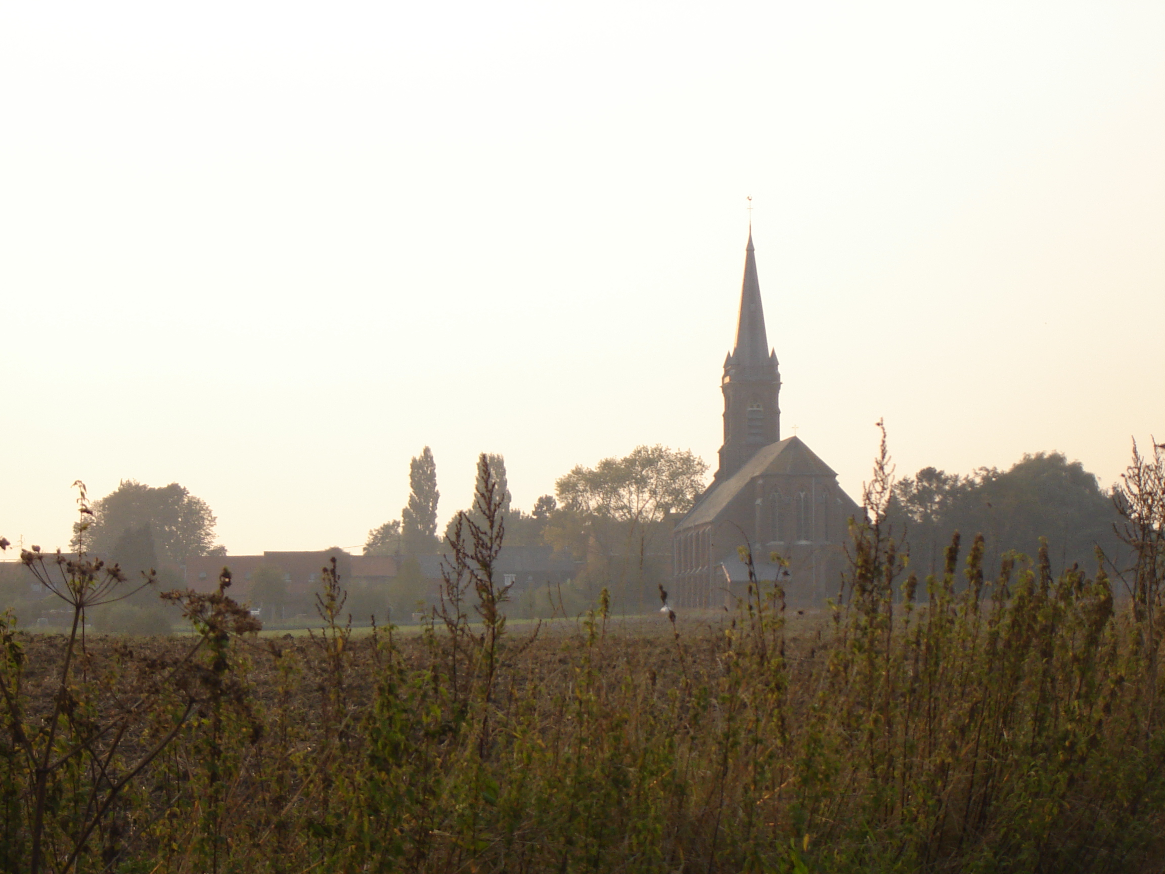 View on Abele. Abele, Watou, Poperinge, West Flanders, Belgium Abeele, Boeschepe, Nord, Nord-Pas-de-Calais, France